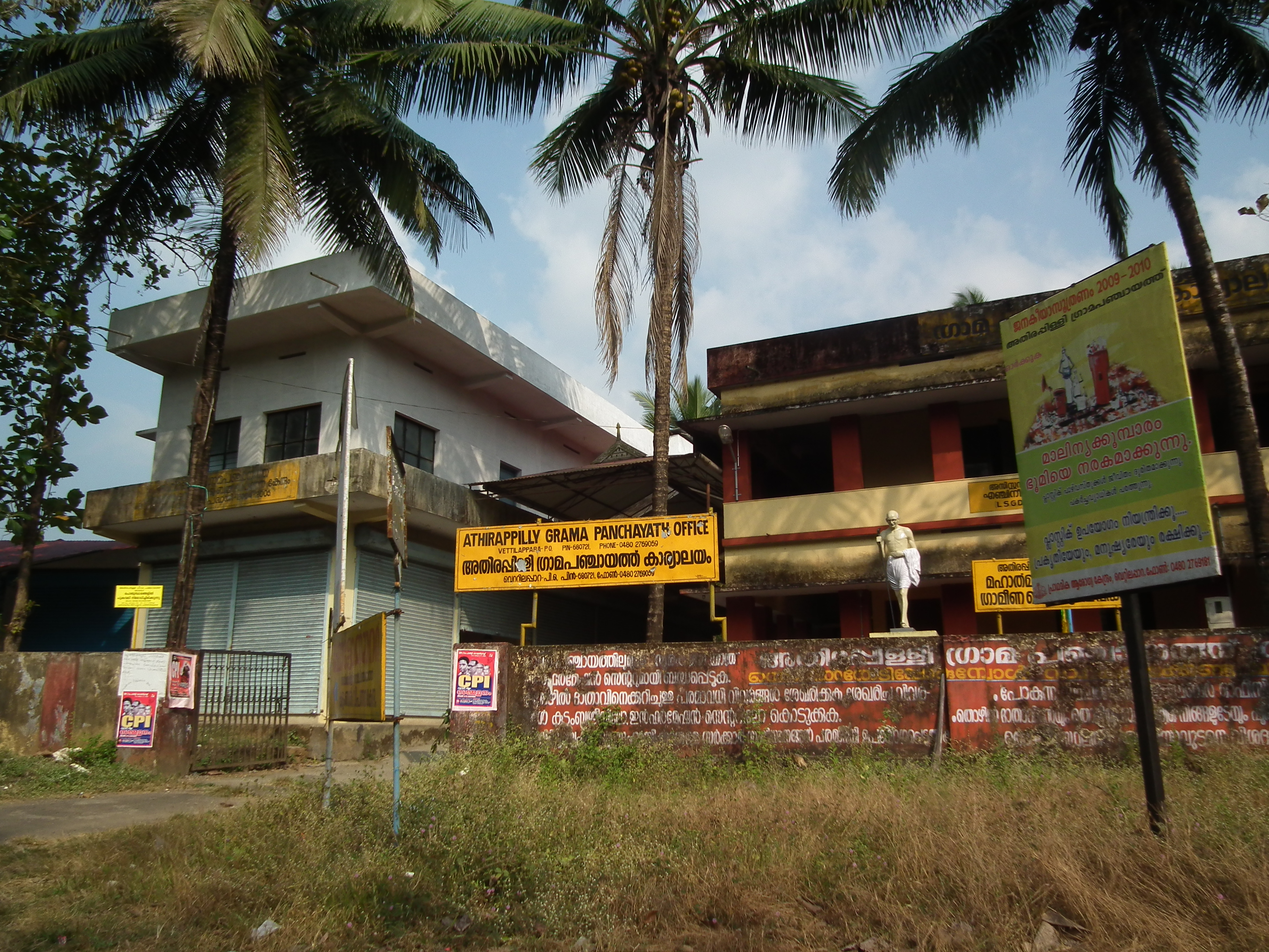 Athirappilly grama panchayath building